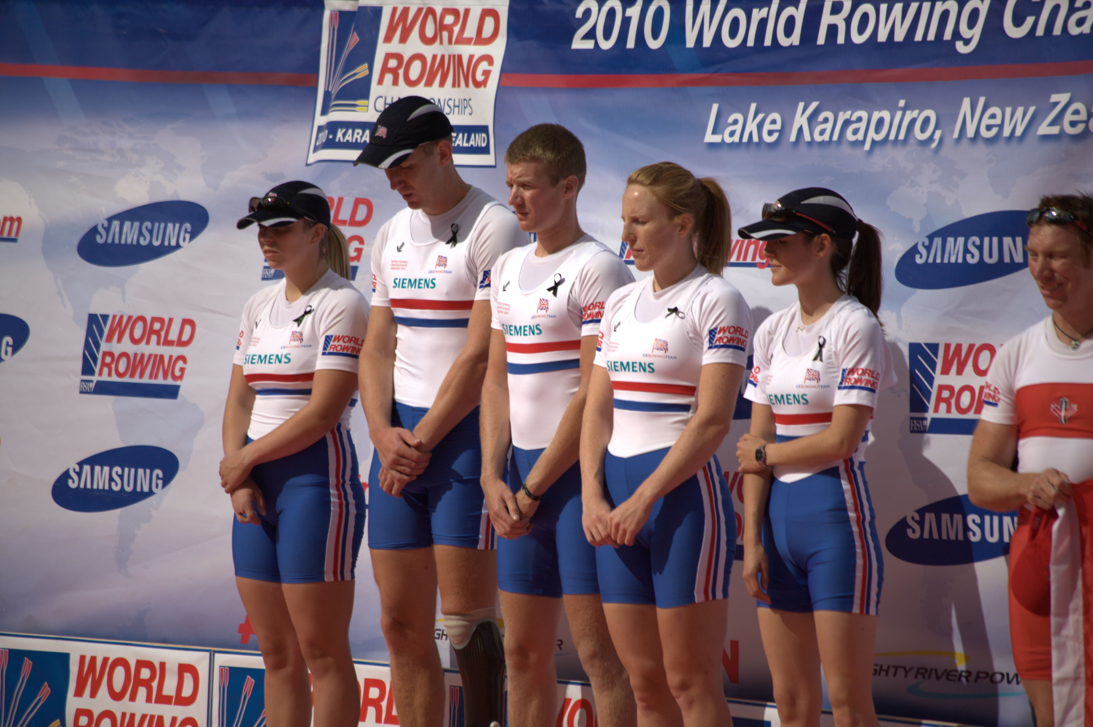 Silver medallists. 2010 World Rowing Championships.